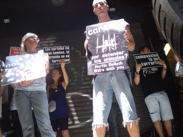 Act against the Austrian ARA jailing. 2008. Spain.